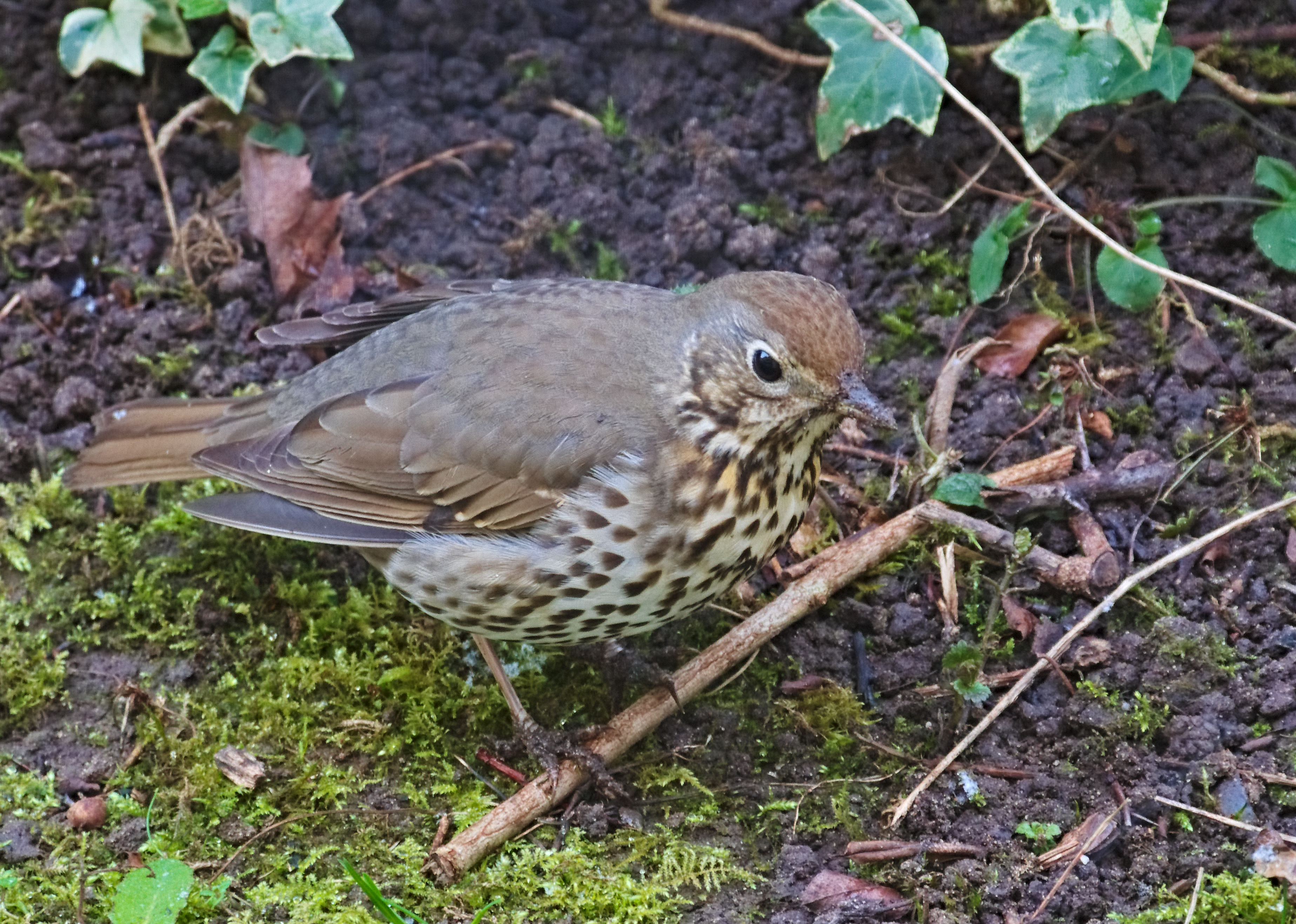 Song thrush - Turdus philomelos. Taken in Mannheim-Vogelstang, Baden-Württemberg, Germany.